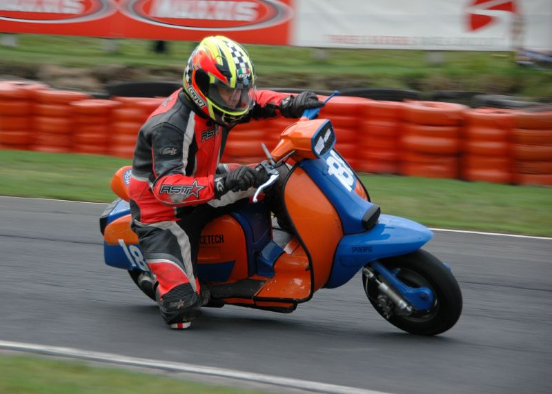 scooter racing at 3 Sisters